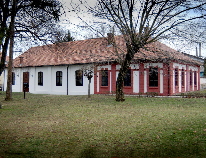 Stara skupština in Kragujevac